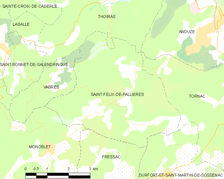 Map commune FR insee code 30252.png - Saint-Félix-de-Pallières